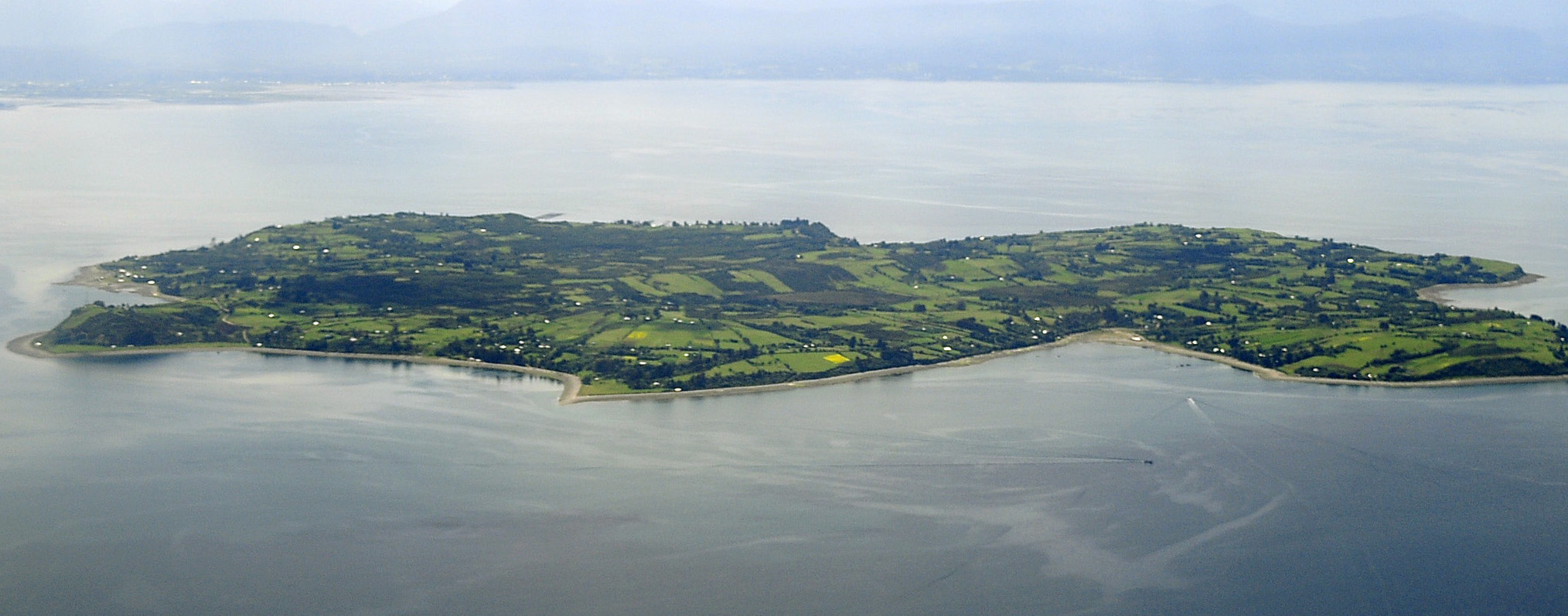 Aerial view of Maillén Island, Seno de Reloncavi, Golfo de Ancud. Puerto Montt, Llanquihue, Los Lagos, Chile